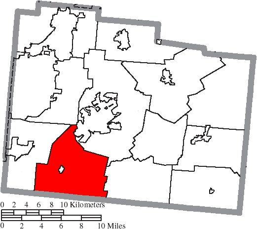 Map of the municipal and township boundaries of Greene County, Ohio, United States, as of the 2000 census, with the location of Spring Valley Township highlighted. Township borders are shown only in unincorporated areas in order to differentiate incorporated and unincorporated areas more clearly.